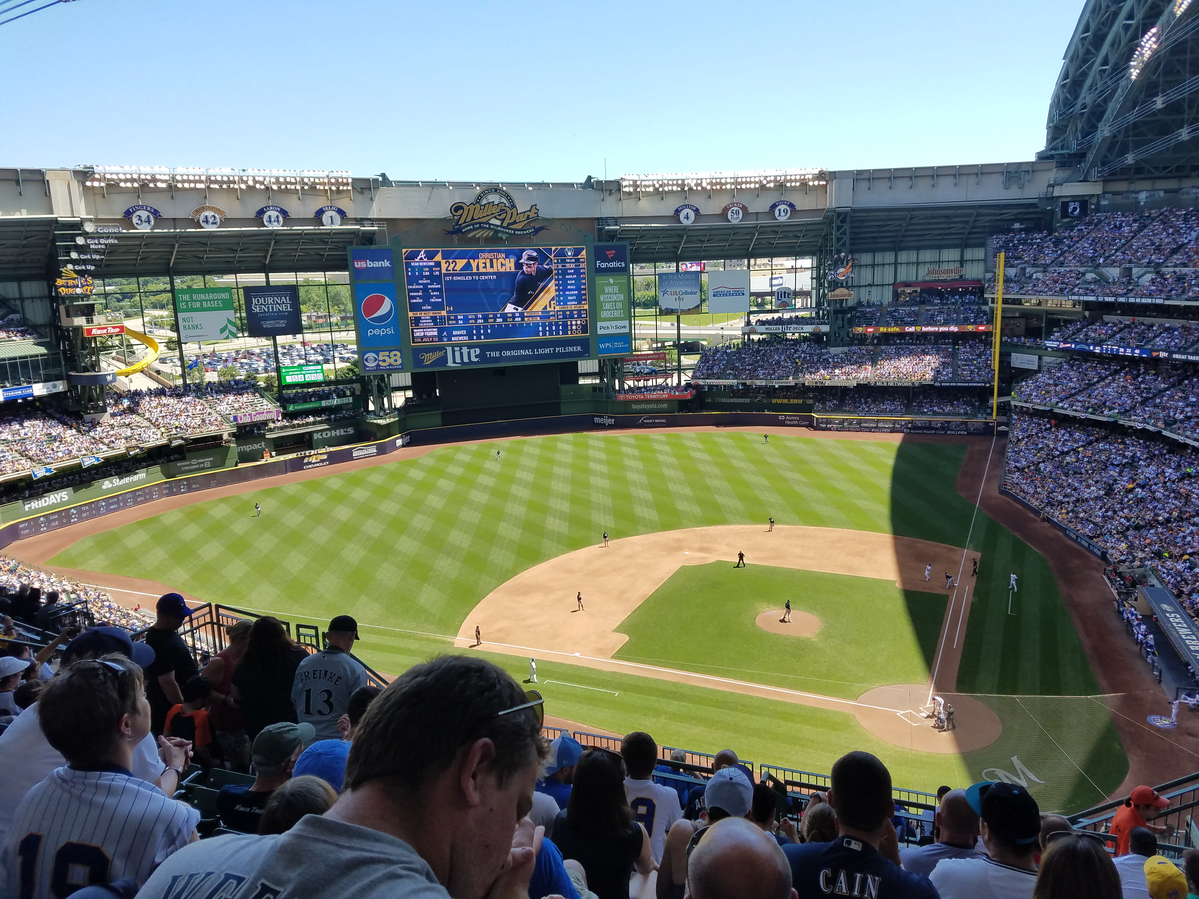 Miller Park in July 2018